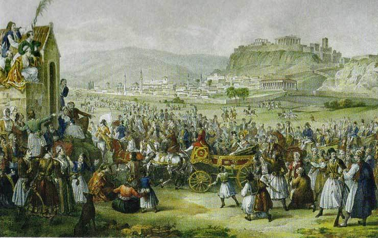 The official entrance of king Otto and queen Amalia in Athens on 15th February 1837